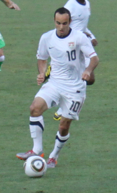 The USA defeated Algeria 1-0 in Pretoria to advance to the round of 16 at the World Cup in South Africa